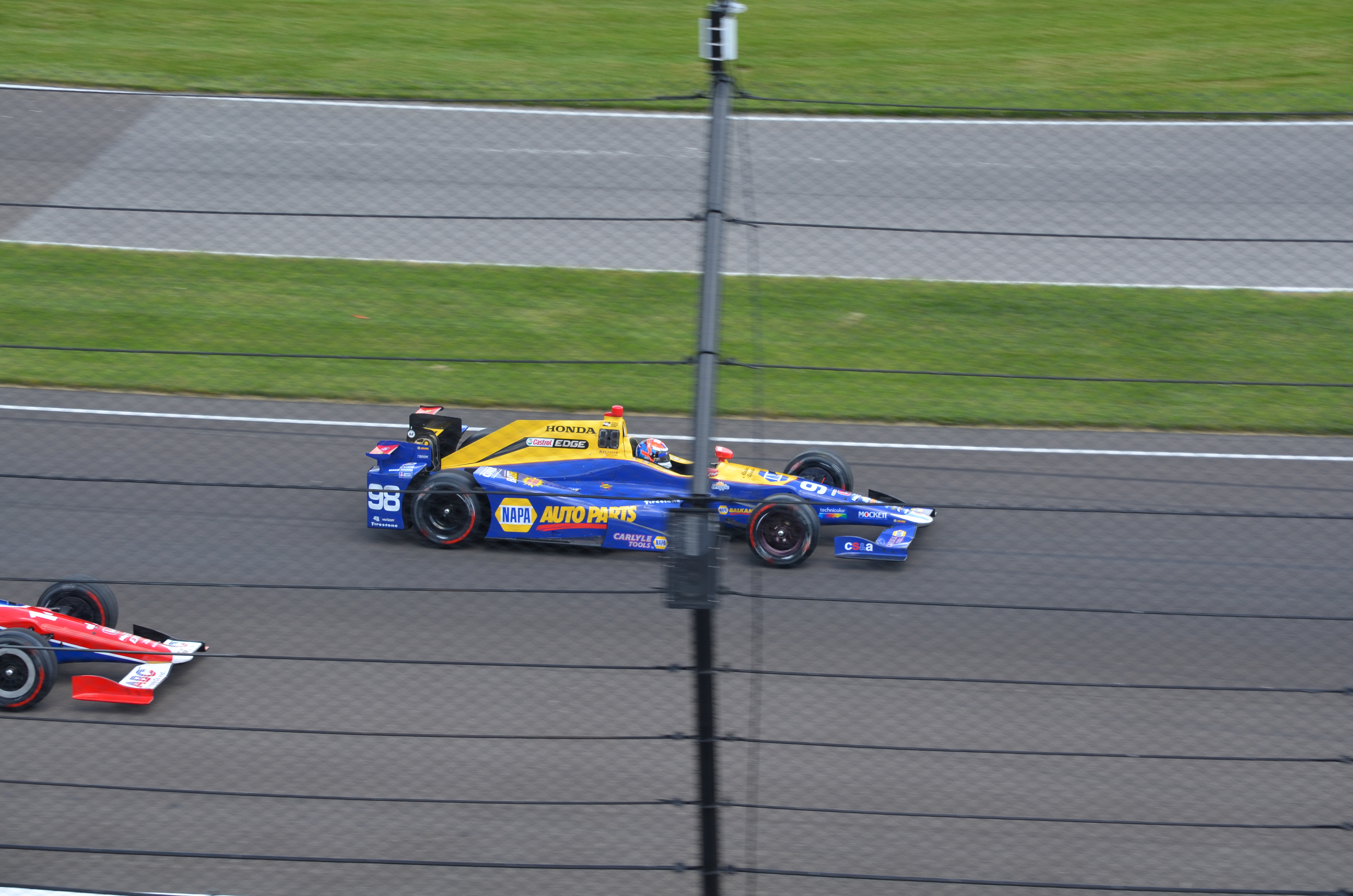 Alexander Rossi at the 2016 Indianapolis 500